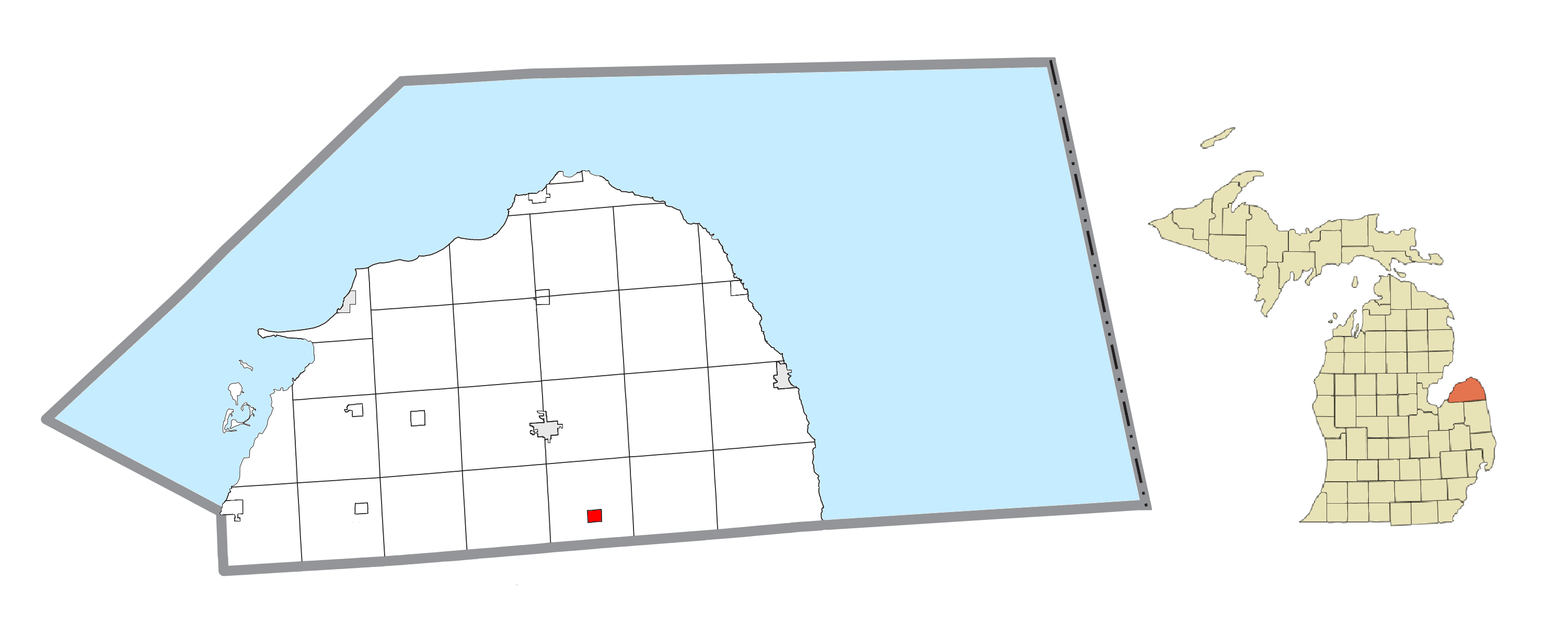 Ubly, MI